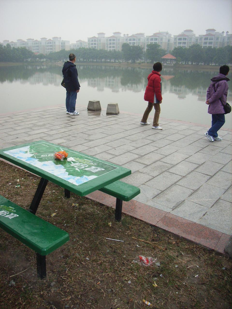 廣州大夫山森林公園 [1]